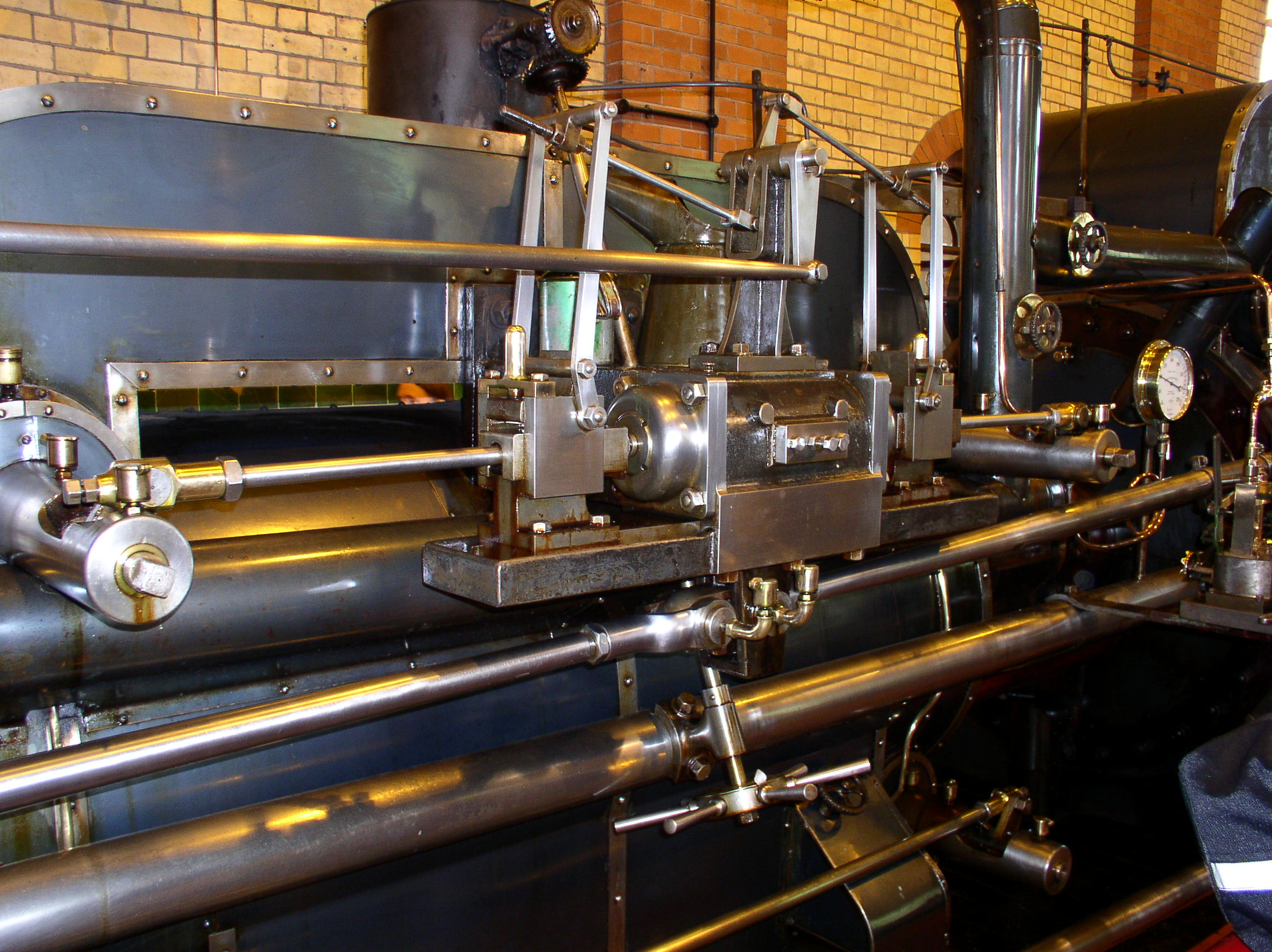 The Ashton Frost engine at Mill Meece Pumping Station, showing the trip-gear on the high-pressure cylinder. The trip-gear is the mechanism in the foreground, upper centre. The blue steel clad casing behind it is the steam manifold which supplies steam to the Corliss inlet valves at each end.